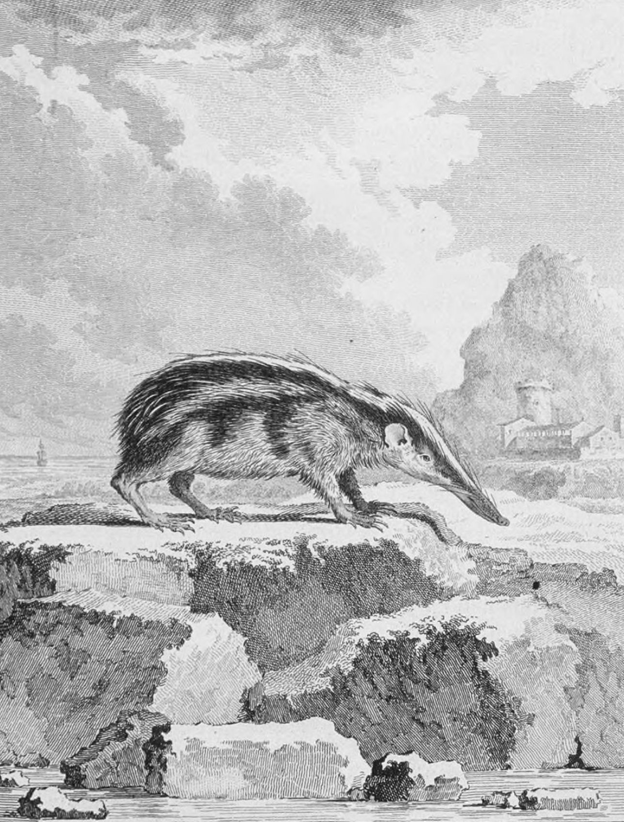 Picture of a Lowland streaked tenrec (Hemicentetes semispinosus), printed in: Georges-Louis Leclerc de Buffon: Histoire naturelle, générale et particulière., Supplément, Tome troisième. Paris, 1776, table 37 ([1])